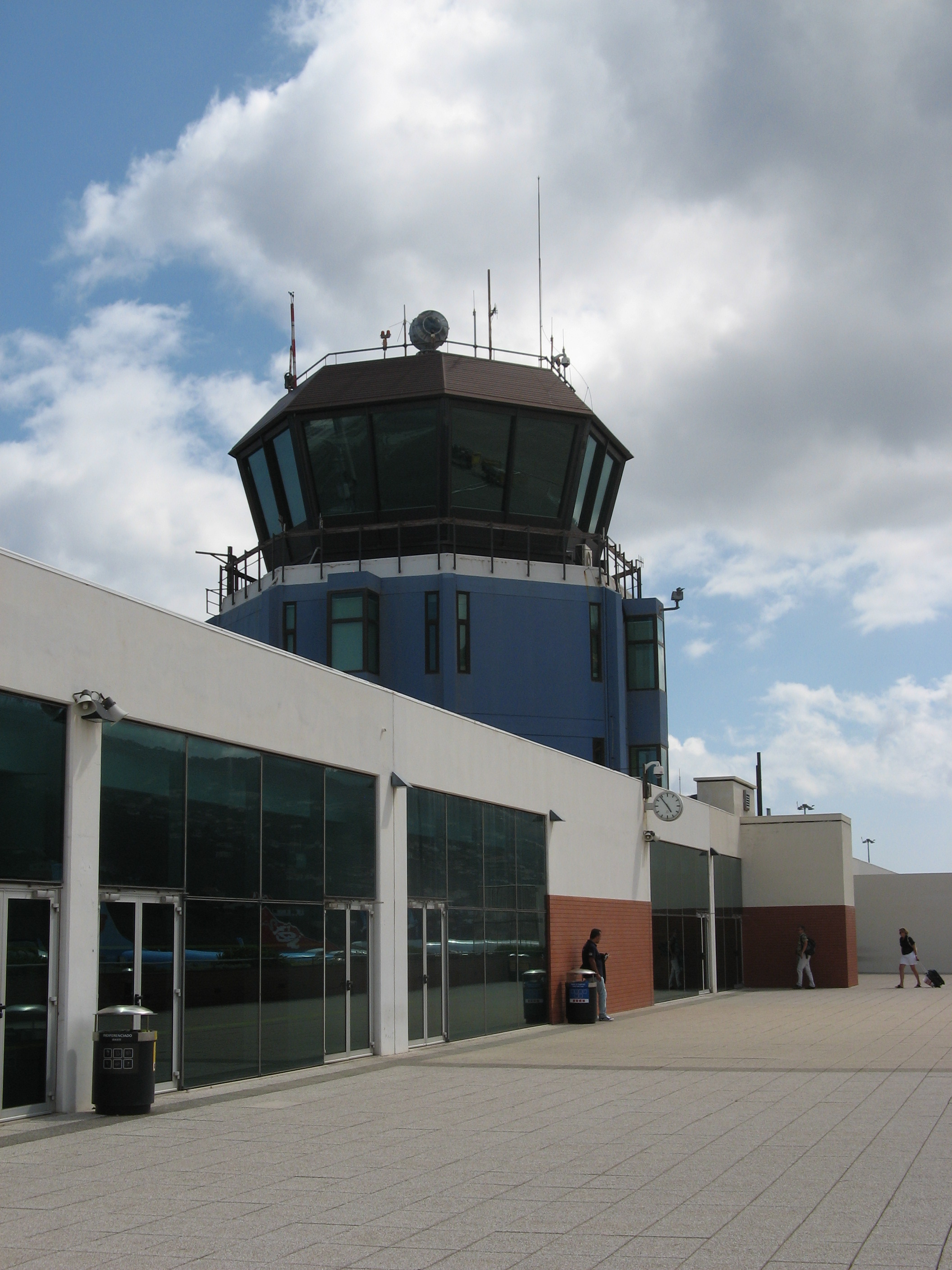 The control tower on Madeira airport